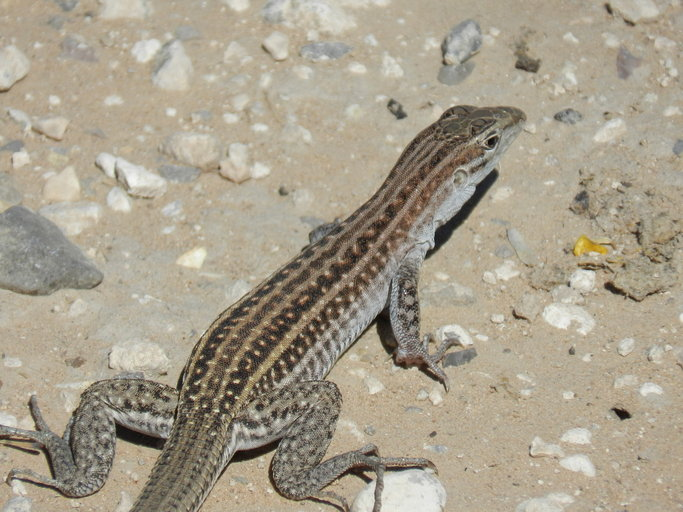 Aspidoscelis exsanguis at Hueco Tanks State Park (El Paso County, Texas, US)